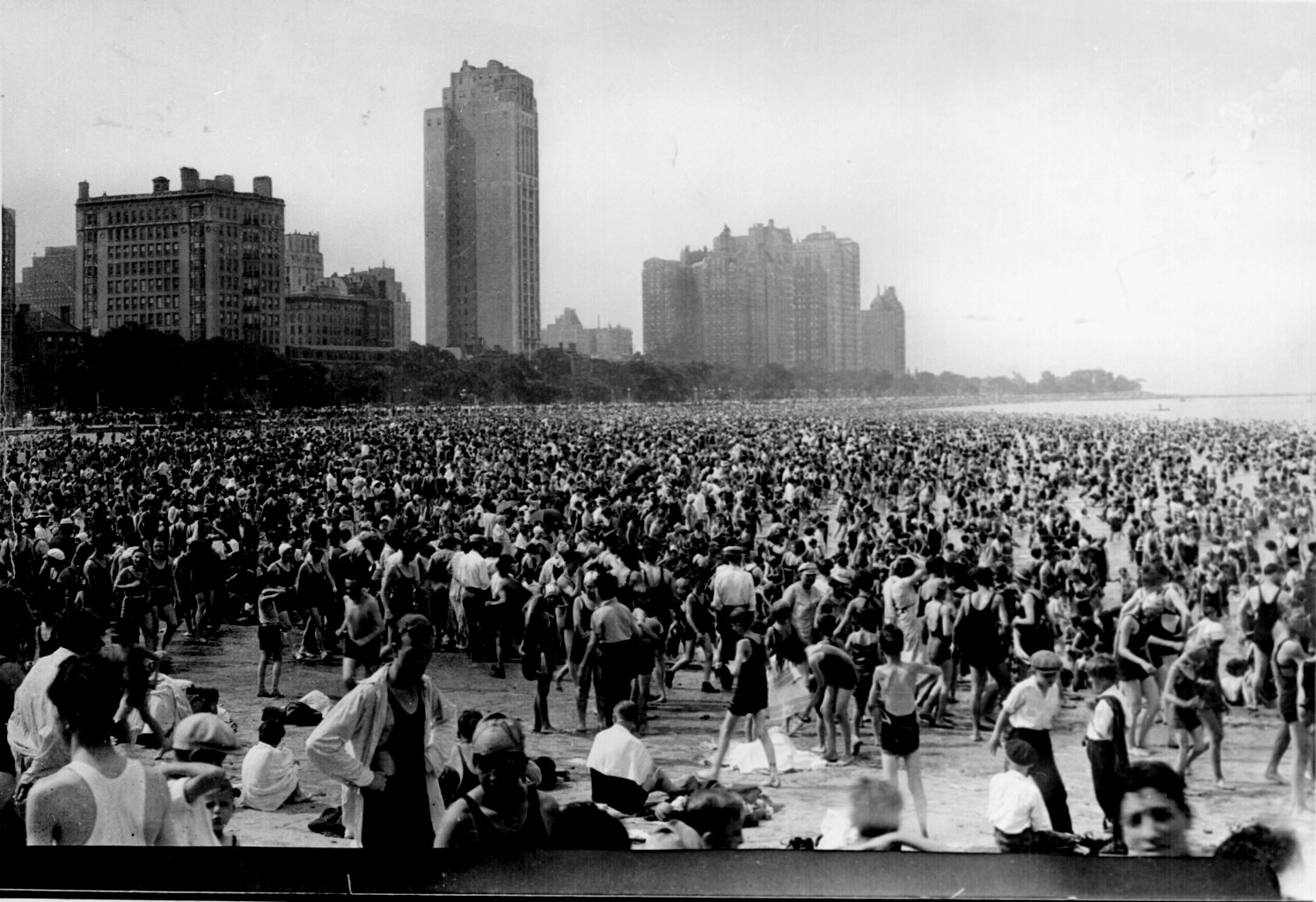 Crowd of bathers on the Lake Michigan beach, Chicago, Illinois, ca. 1925.